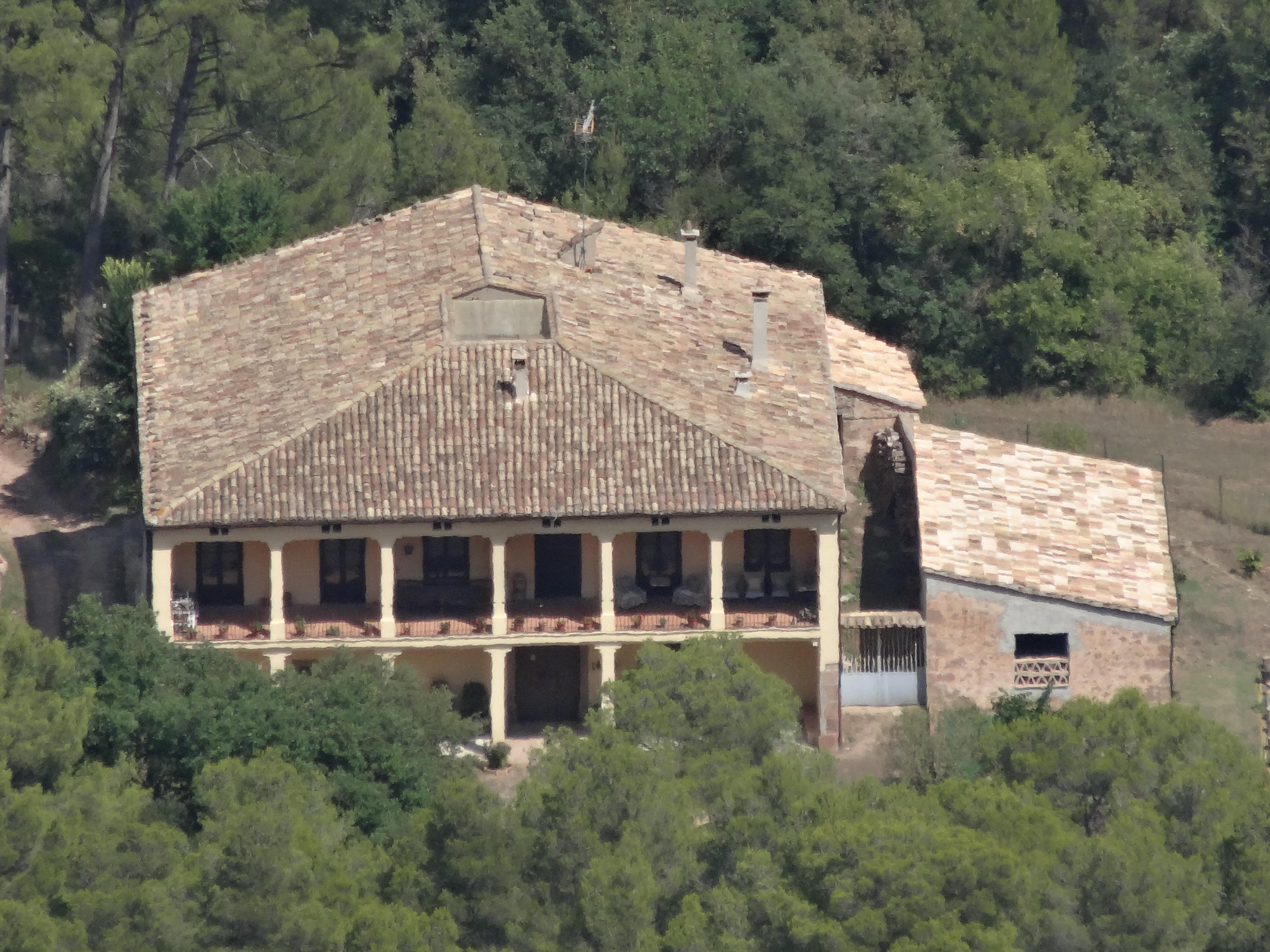 Cal Torre del Forn (Rajadell) vist des del Cogulló de Cal Torre (o Cogulló de Can Torra).